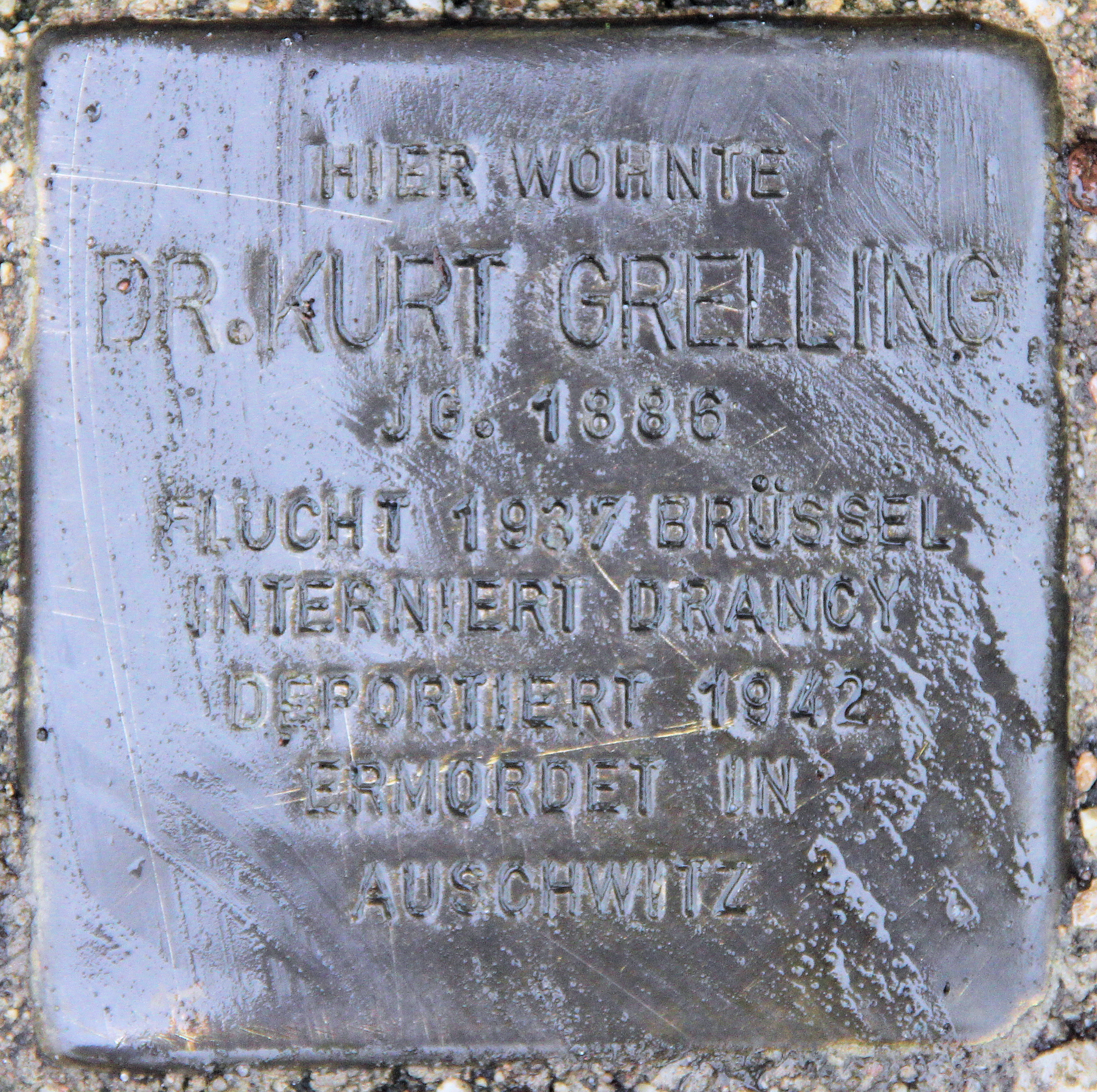 "Stolperstein" (stumbling block), Kurt Grelling, Königsberger Straße 13, Berlin-Lichterfelde, Germany Koordinate:52°25′49″N 13°19′10″E / 52.43028°N 13.31944°E